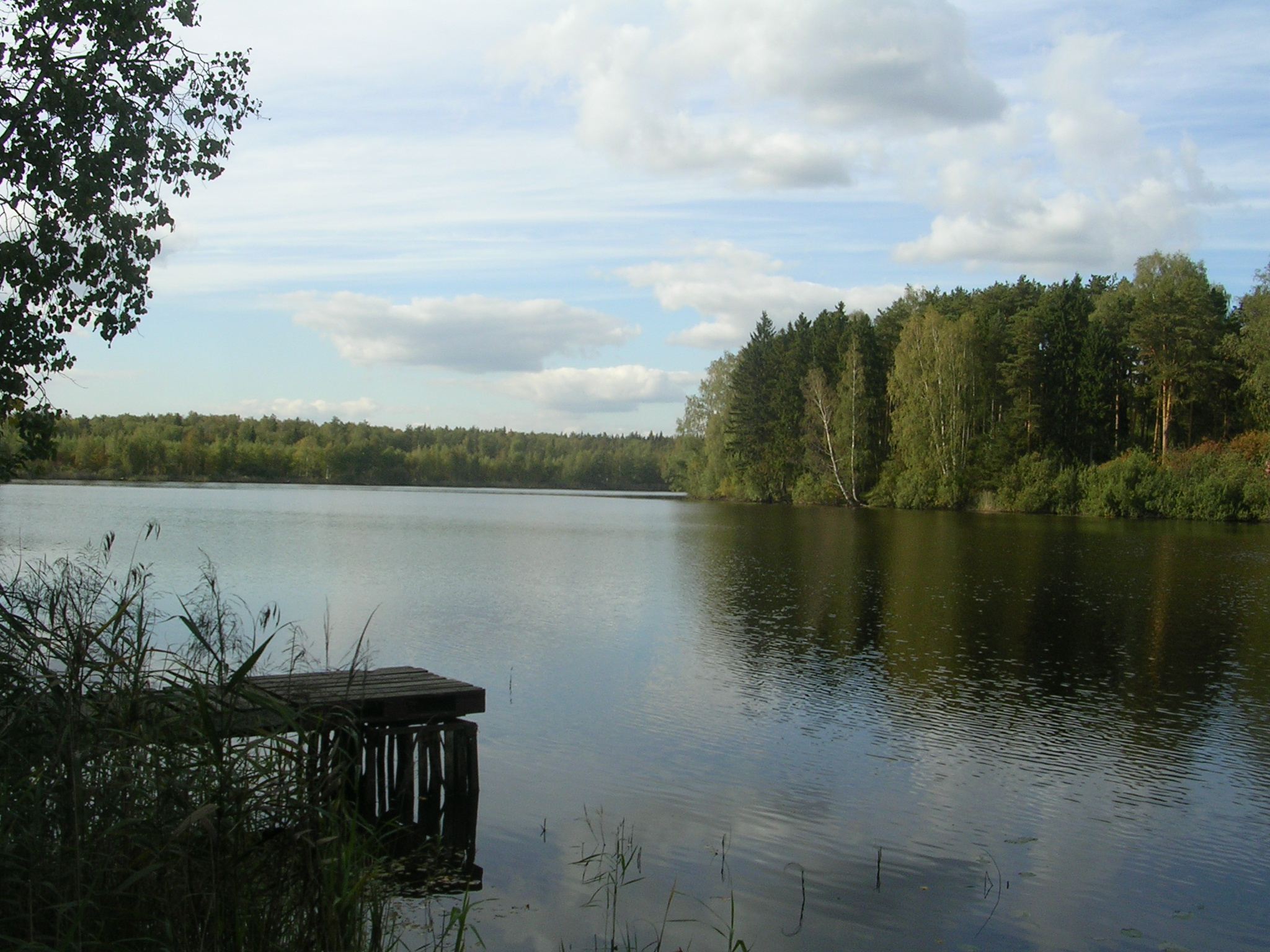 Lukovo lake in Noginsk district of Moscow region Russia, 2010.